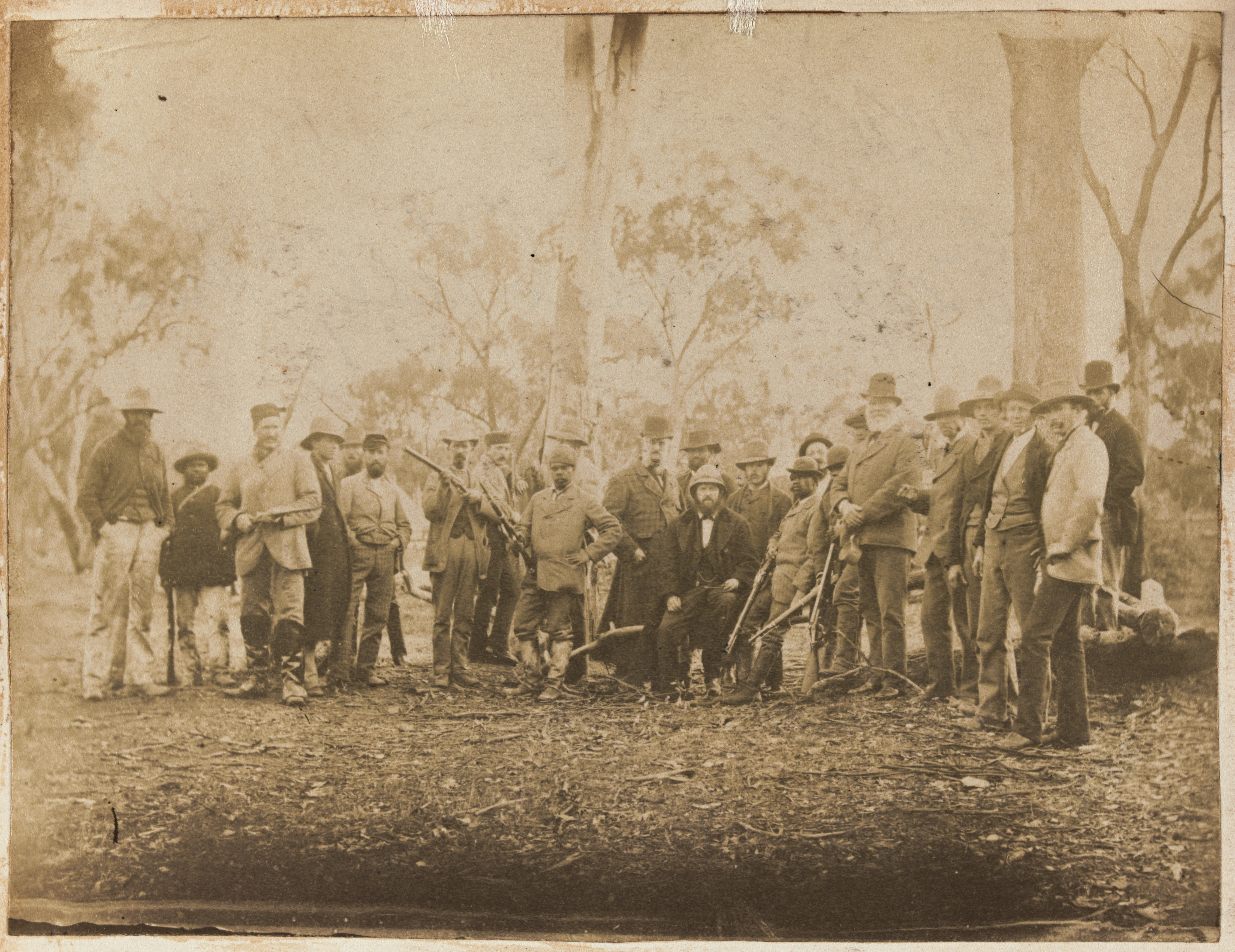 "Group at the Kelly Tree", photograph, albumen silver; 9.7 x 12.8 cm